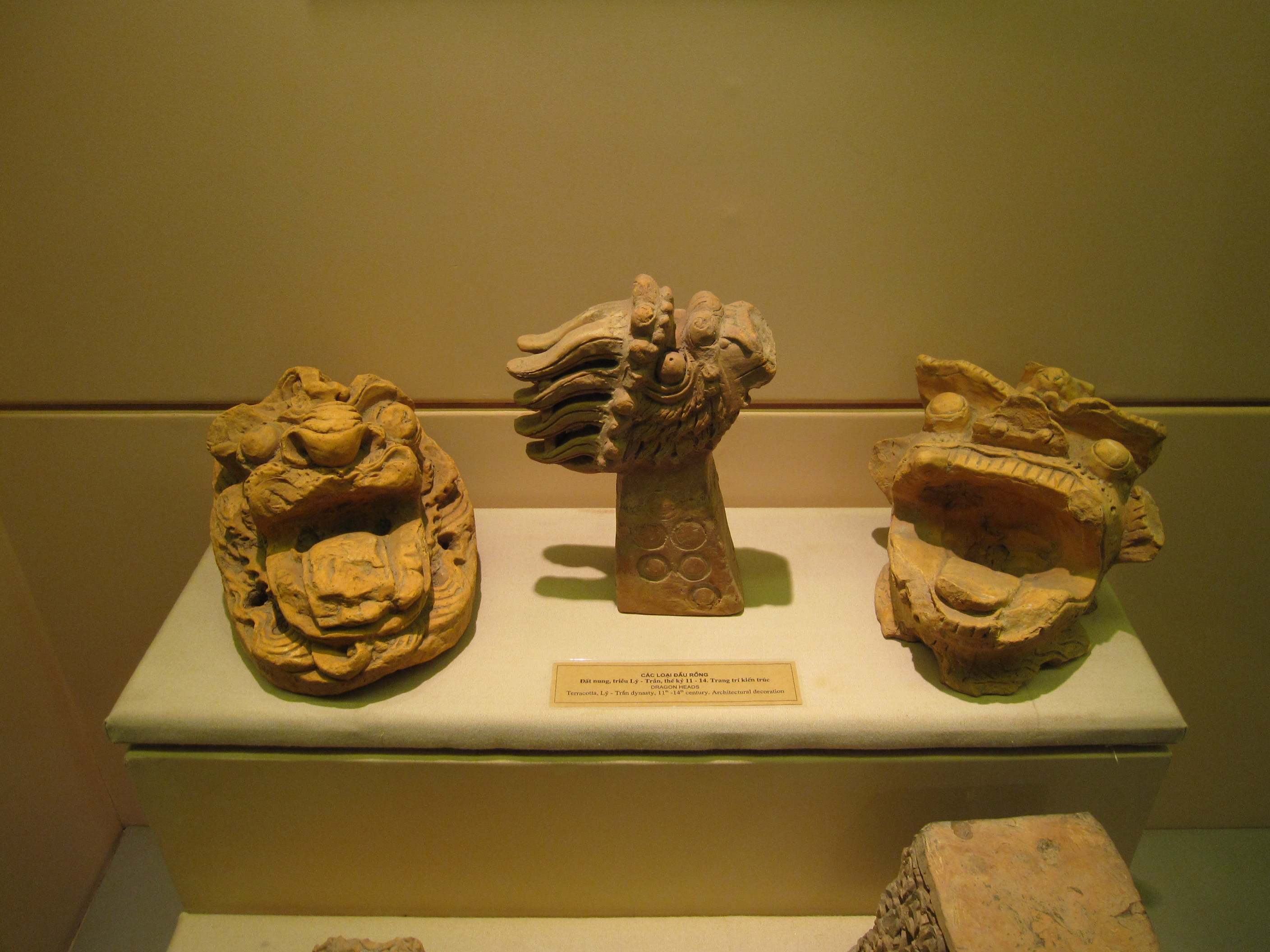 Dragon heads. Terracotta, Lý-Trần dynasty, 11th-14th century. Architectural decoration. National Museum of Vietnamese History, Hanoi.